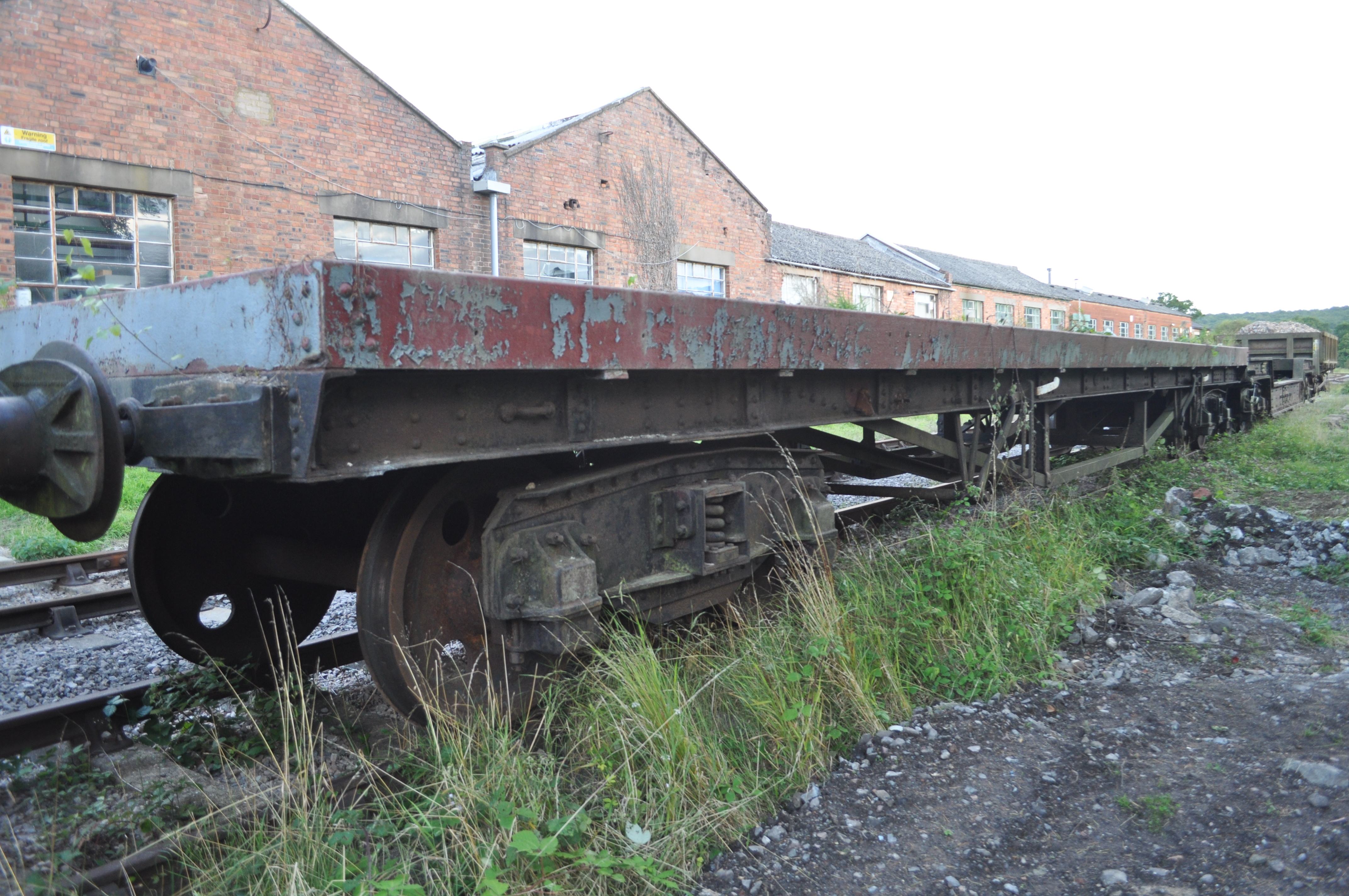 B941616 (Bobol D) at Whitecroft, Dean Forest Railway